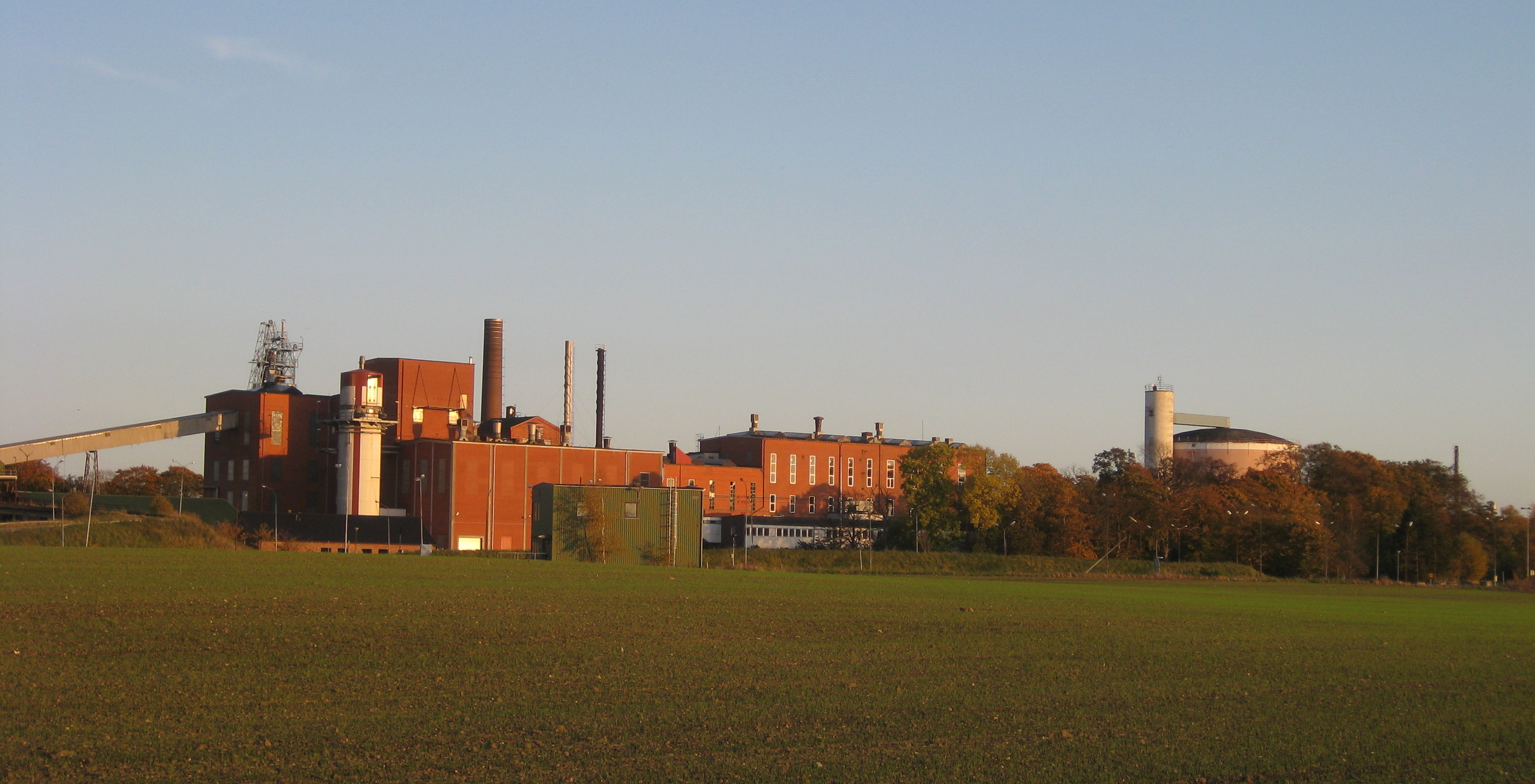 Jordberga sugar refinery in Skåne, Sweden. It is now closed down and will be demolished.